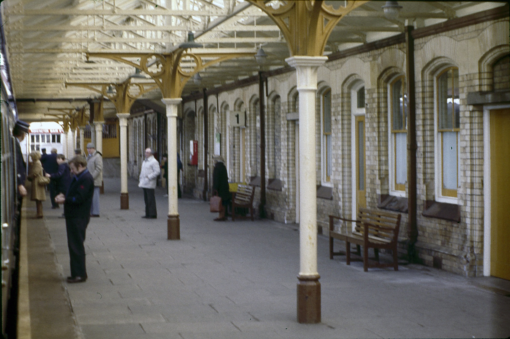 Workington Station